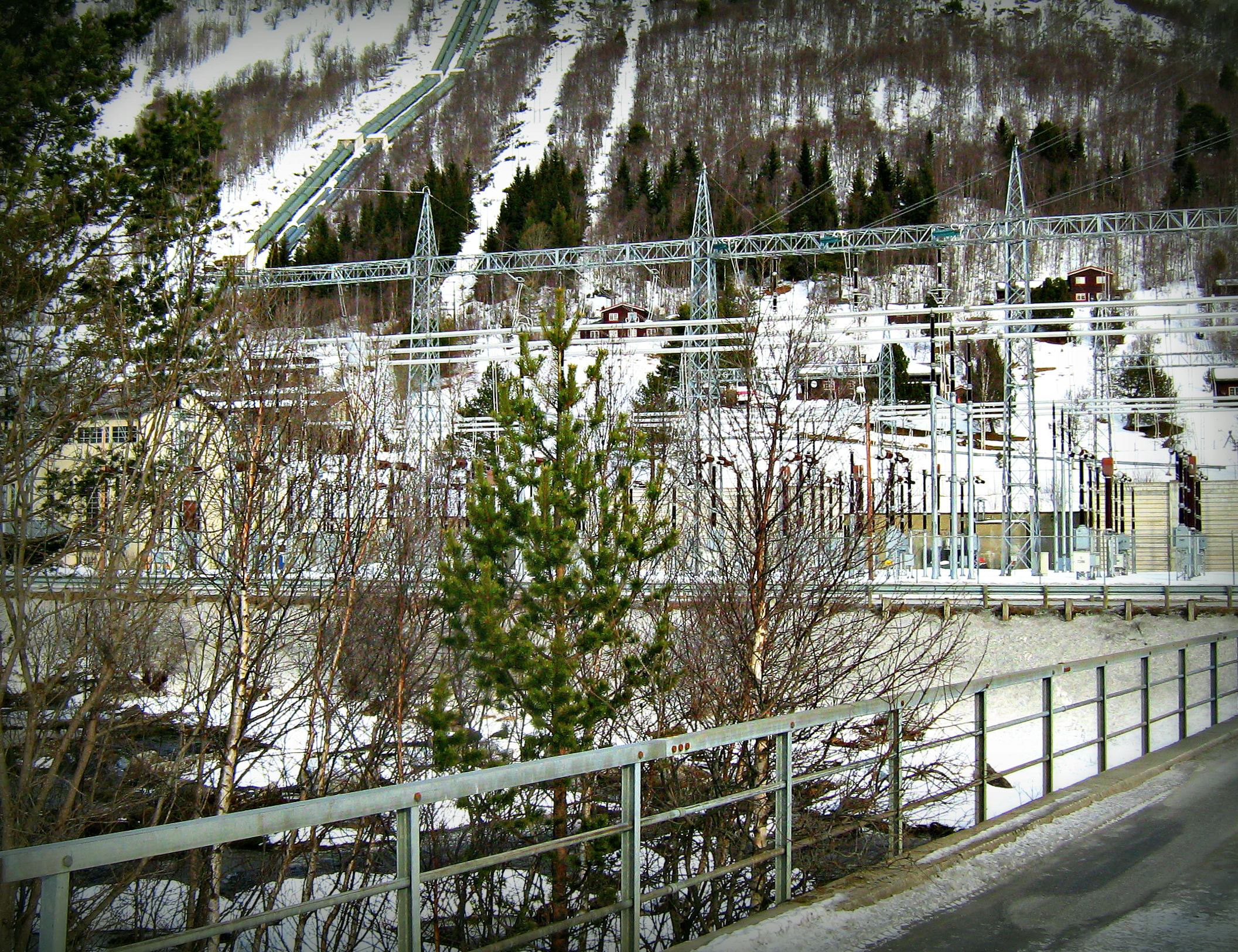 When you enlarge the photo you can see the two pipes from the top of the mountain, downward, to the powerstation. The left one contains water from the Strandavatnet, and belongs to the Urunda watercourse; the right one belongs to the Votna watercourse.